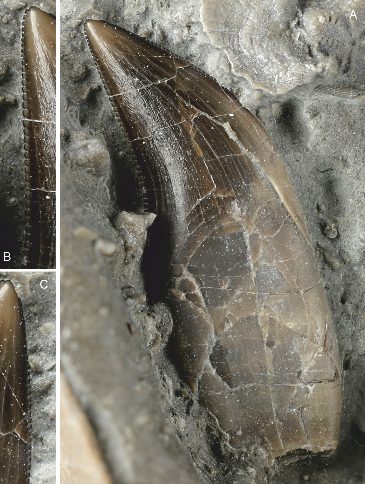 Tooth of holotype skeleton of Dracoraptor hanigani National Museum Wales (NMW) 2015.5G.1–2015.5G.11., assumed to be from right maxilla with which it lies adjacent. (A) Entire tooth with crown and root. Note that the tip is in good condition with minimal wear. (B) Serrations of the caudal margin. (C) Serrations of the cranial margin with a slightly damaged tip and some wear on the first few (app. 8–10) serrations. The morphology of the serrations on either side is distinctive.